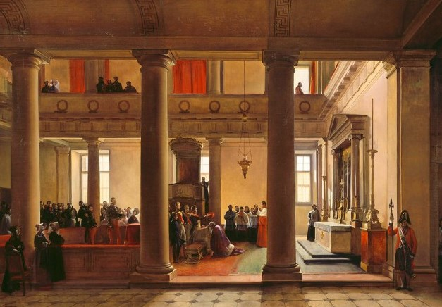 Louis Philippe imposes the cardinal hat on Jean-Louis de Cheverus in the chapel of the Tuileries, 10 March 1836